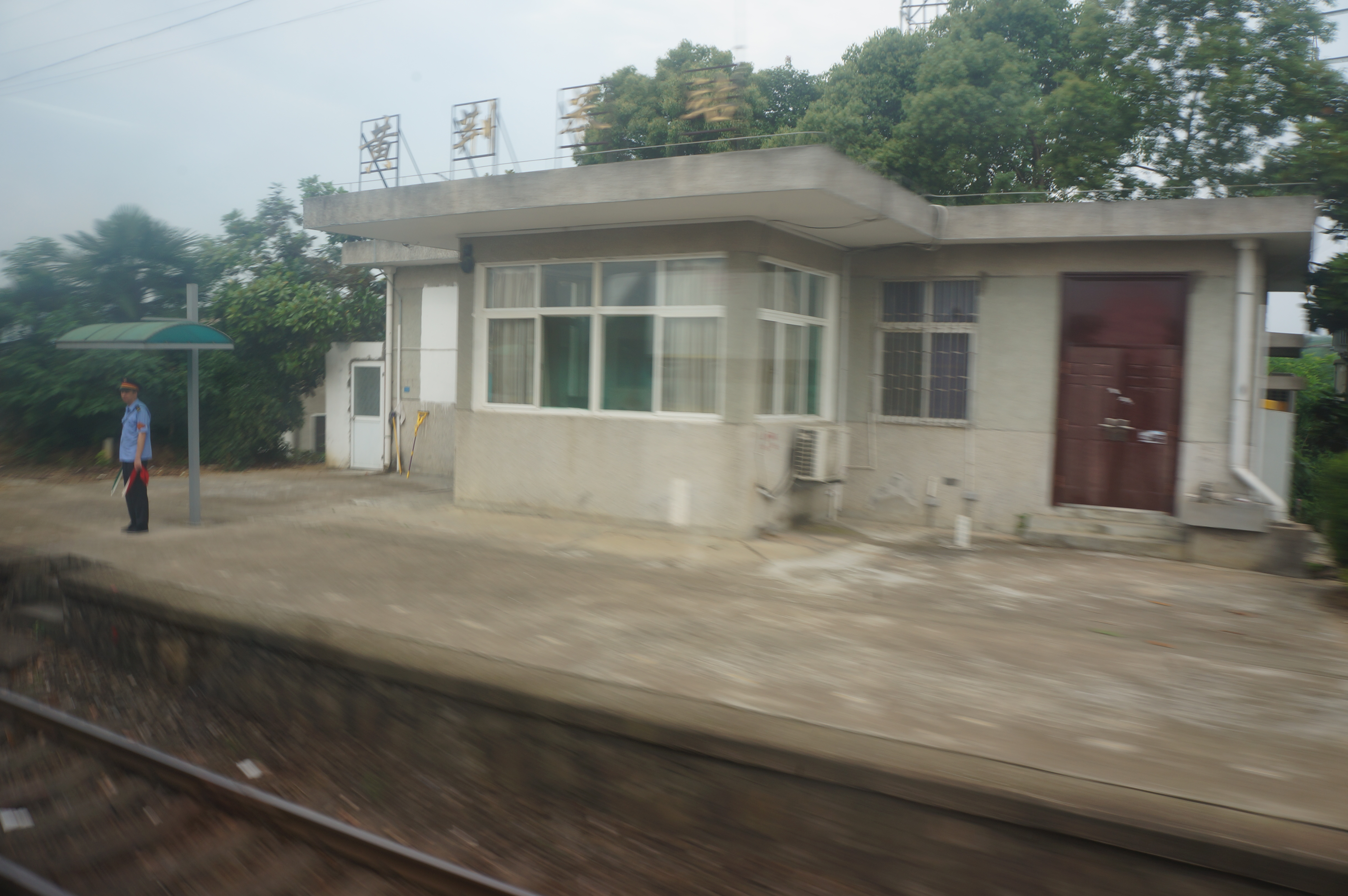 201705 Station building of Huangjingben Station